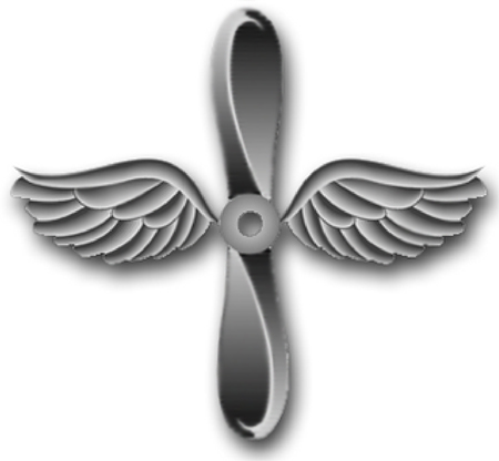 US Navy Aviation Machinist's Mate (AD). A winged two-bladed propeller.